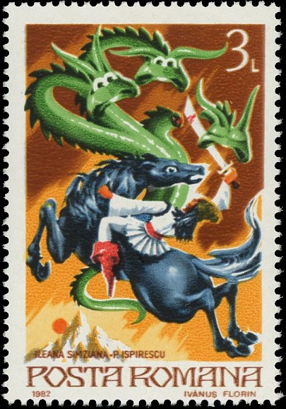 Ileana Sinziana